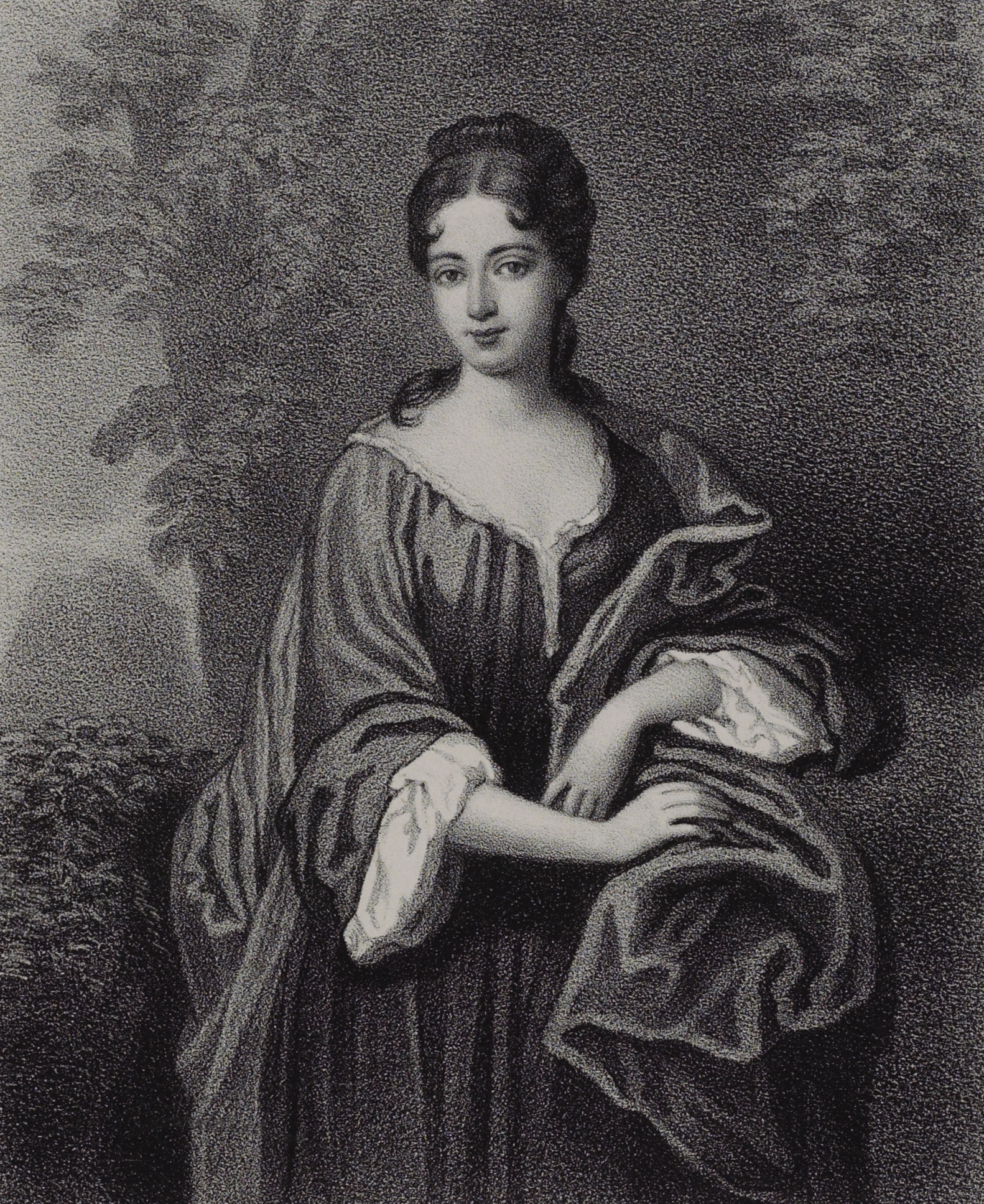 Lady Lucy Herbert, sister of Winifred, Countess of Nithsdale.